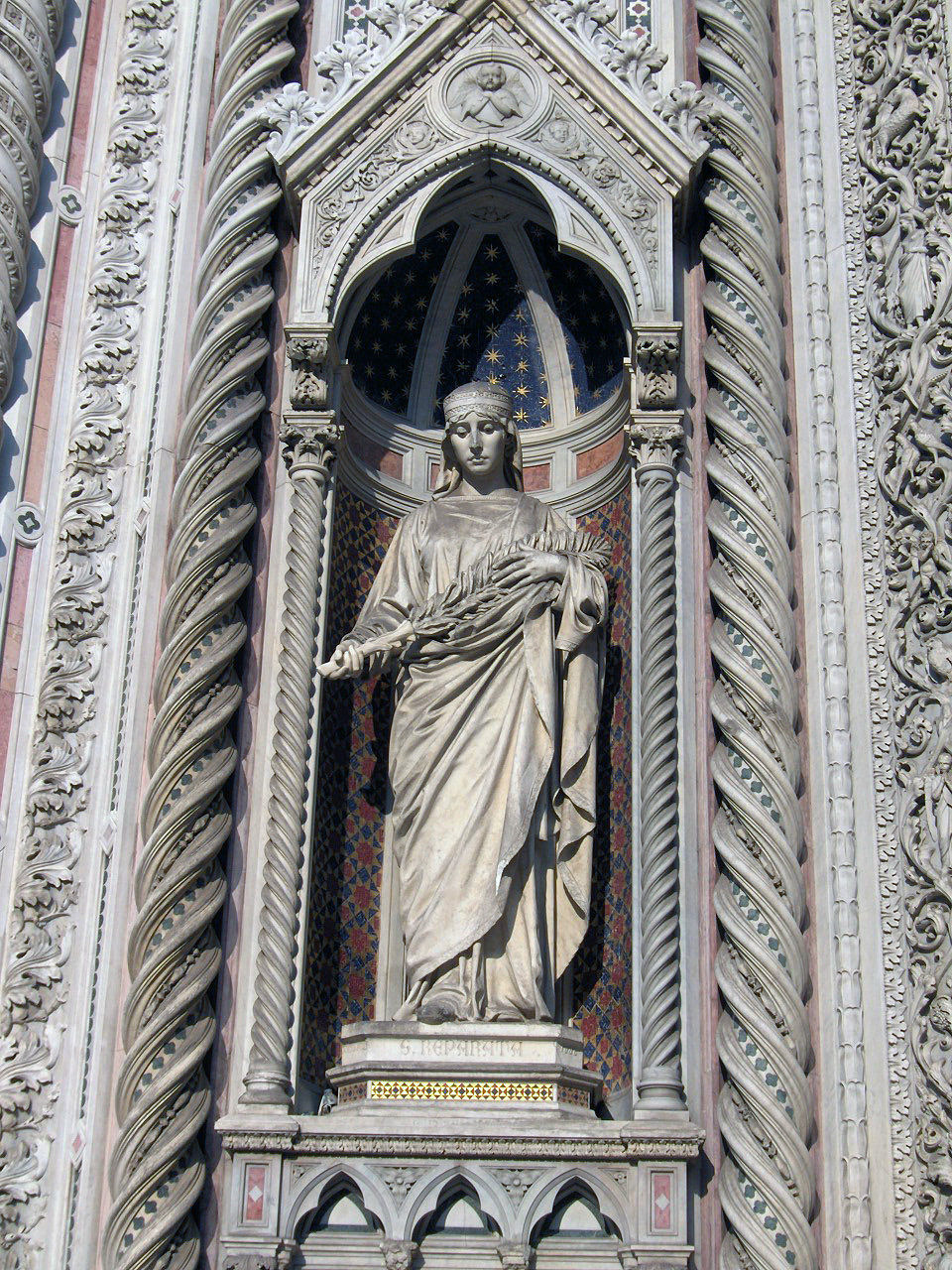 Santa Reparata (detail) in the middle portal of the Duomo Santa Maria del Fiore; Florence, Italy Own photo - photo made on 12 October 2005